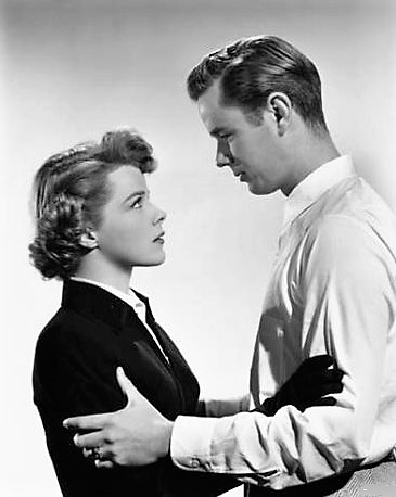 Sally Forrest, Marshall Thompson in "Mystery Street", promotional still